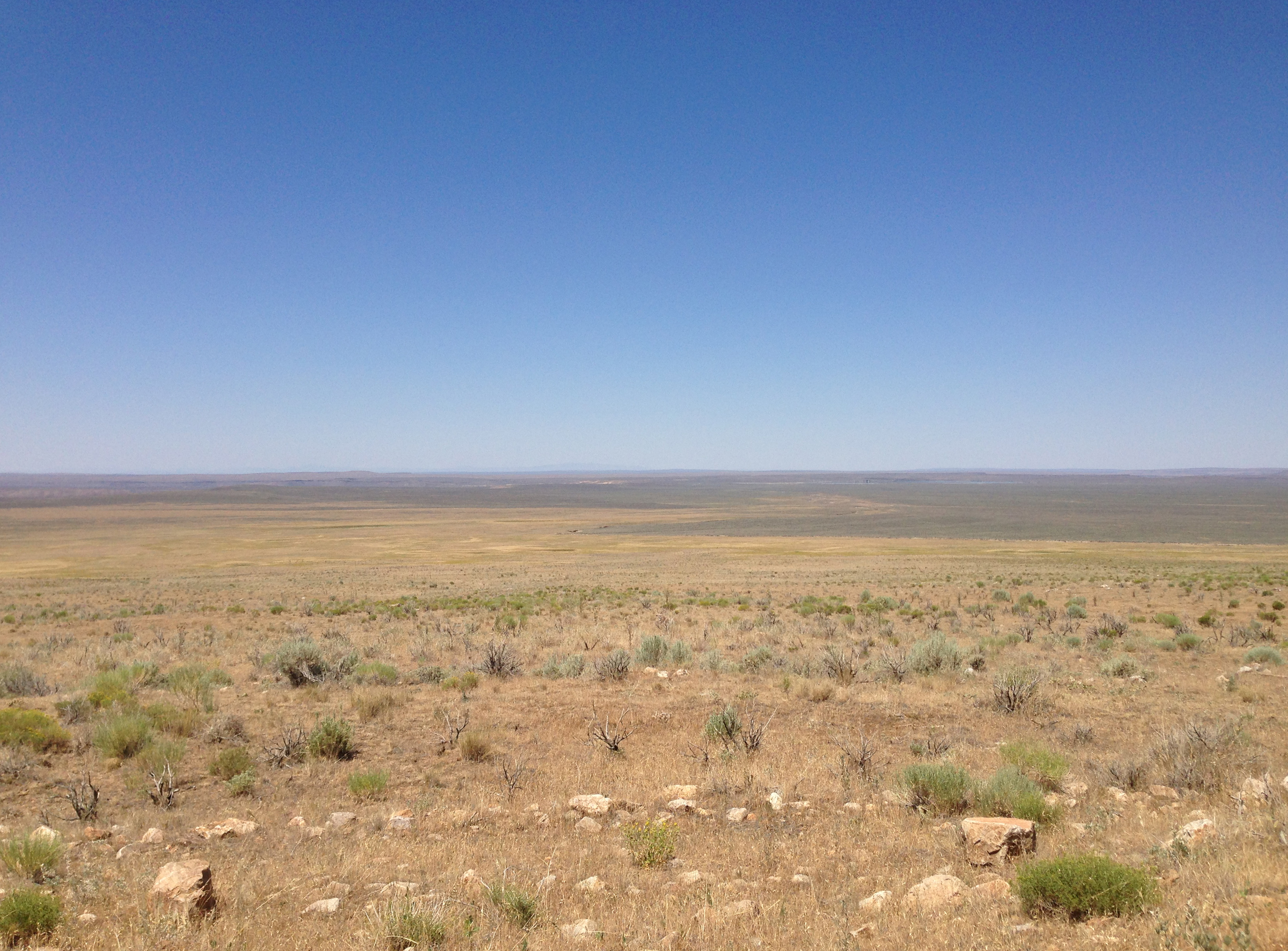 View west across the Owyhee Desert of Nevada from Elko County Route 728 (Owyhee Road) along the foothills of the Bull Run Mountains